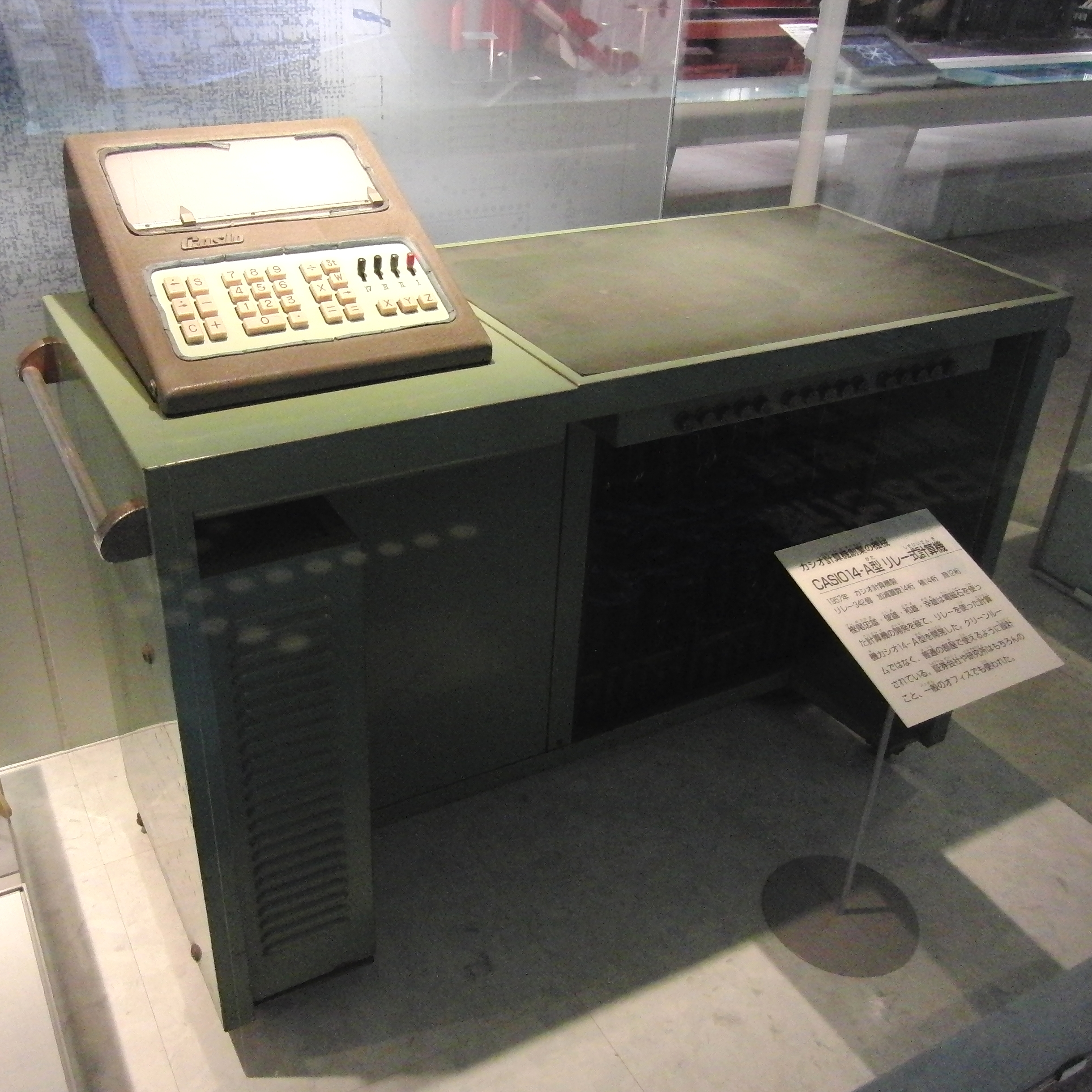 CASIO 14-A type Relay formula computer. Exhibit in the National Museum of Nature and Science, Tokyo, Japan.